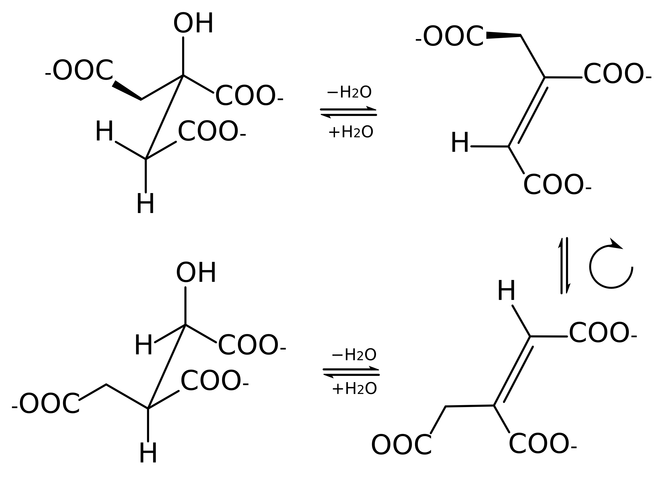 Reaction steps in the reaction catalyzed by aconitase, stereospecific view. Top left: Citrate. Bottom left: Isocitrate. Right: Aconitate. The aconitate has to flip by 180 degrees between the reactions. The double bond is elongated to show which atoms are related in all molecules.